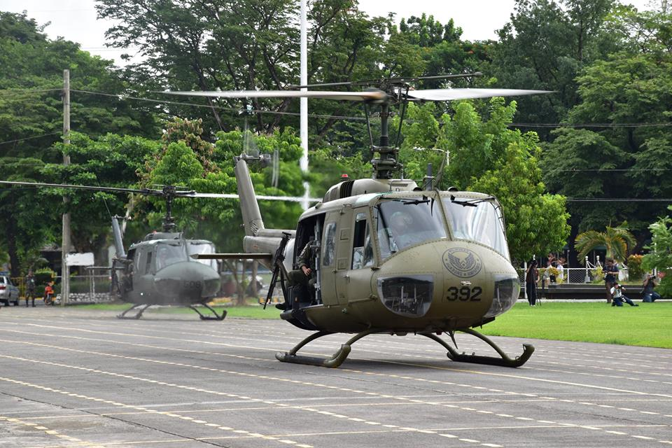 PAF's Dornier UH-1D with an older UH-1H at the background. Shot during demo of newly acquired reconditioned Dornier UH-1Ds.